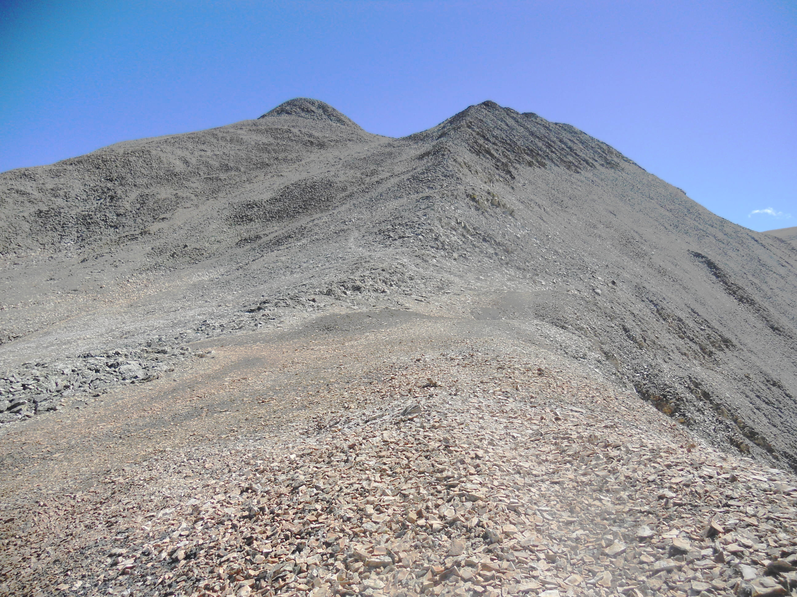 Gemini Peak, elevation 13,951 ft (4,143 m), viewed from the northwest. The slightly higher summit is the one one the left.